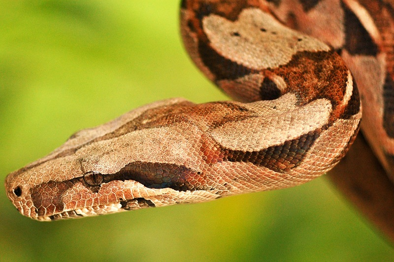 boa constrictor closeup